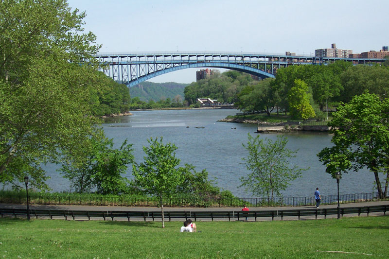 Looking northwest along a former part of the Harlem River in Inwood Hill Park in May 2002. The Henry Hudson Bridge and New Jersey Palisades can be seen in the background. The peninsula on the right was originally in The Bronx.